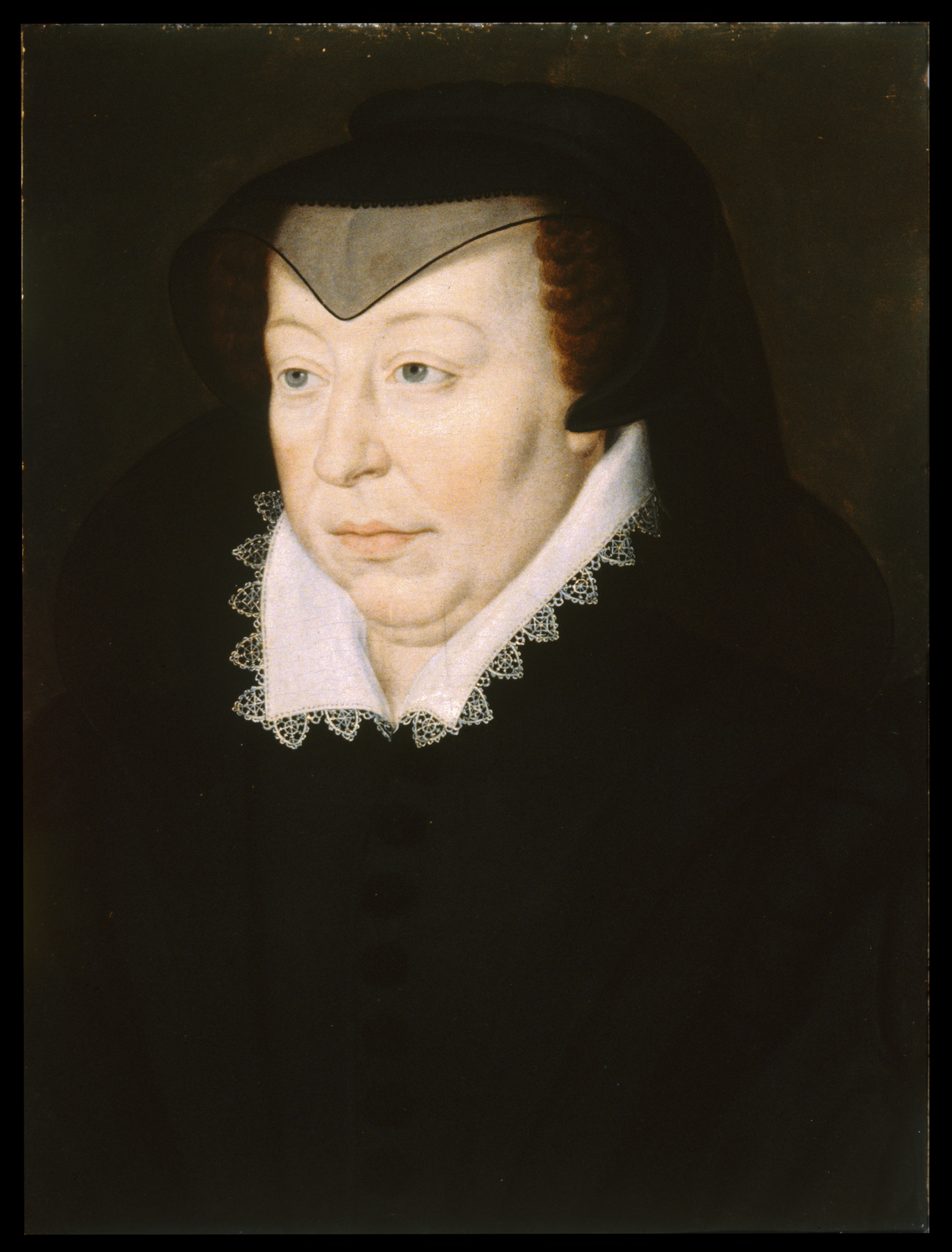 Catherine de' Medici (1519-89) was the daughter of Lorenzo de' Medici, the duke of Urbino, and his French wife. Catherine married the duke of Orleans, later King Henry II of France (1519-59). Here, she is depicted with a widow's cap, which she continued to wear long after her husband's death. She was a patron and admirer of the exquisite enamel tableware produced in Limoges. A linear, refined style with little shading is typical of the work of François Clouet, painter to the French court at Fontainebleau and a favorite of Queen Catherine. There are many versions of this painting, made for courtiers and family who wanted a portrait of the queen.